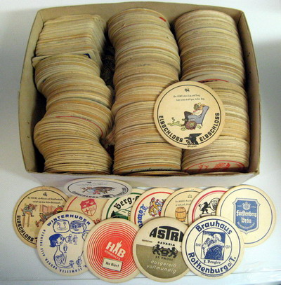 Summary Description